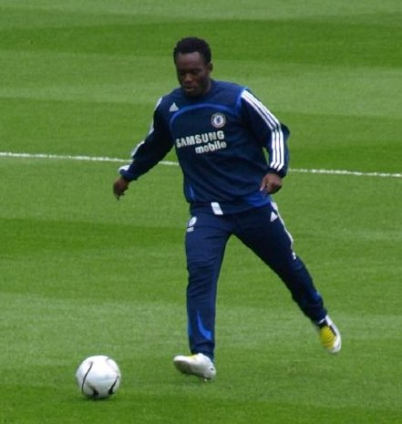 Michael Essien, football (soccer) player